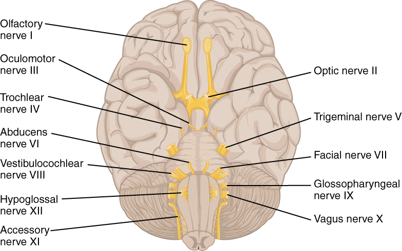 Version 8.25 from the Textbook OpenStax Anatomy and Physiology Published May 18, 2016